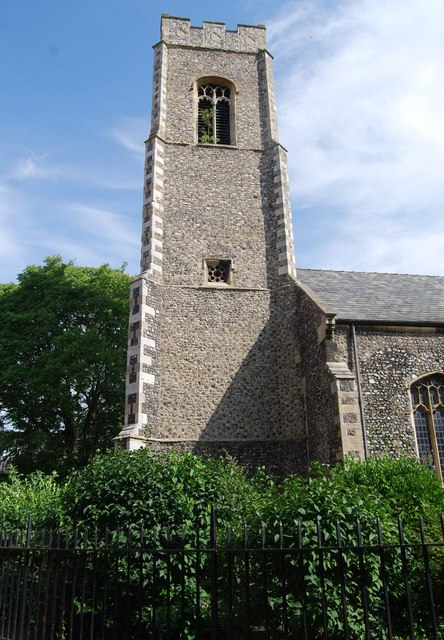 West tower of St Clement's parish church, Colegate, Norwich, Norfolk, seen from south-southeast